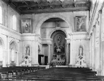 Interior of Sared Heart Basilica, Wellington, New Zealand. New Zealand Historic Places Trust Register number: 214.